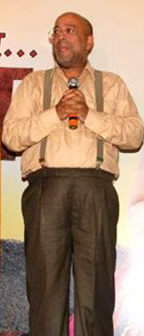 Pramod Moutho at the Sony TV's screening of serial Maan Rahe Tera Pitaah